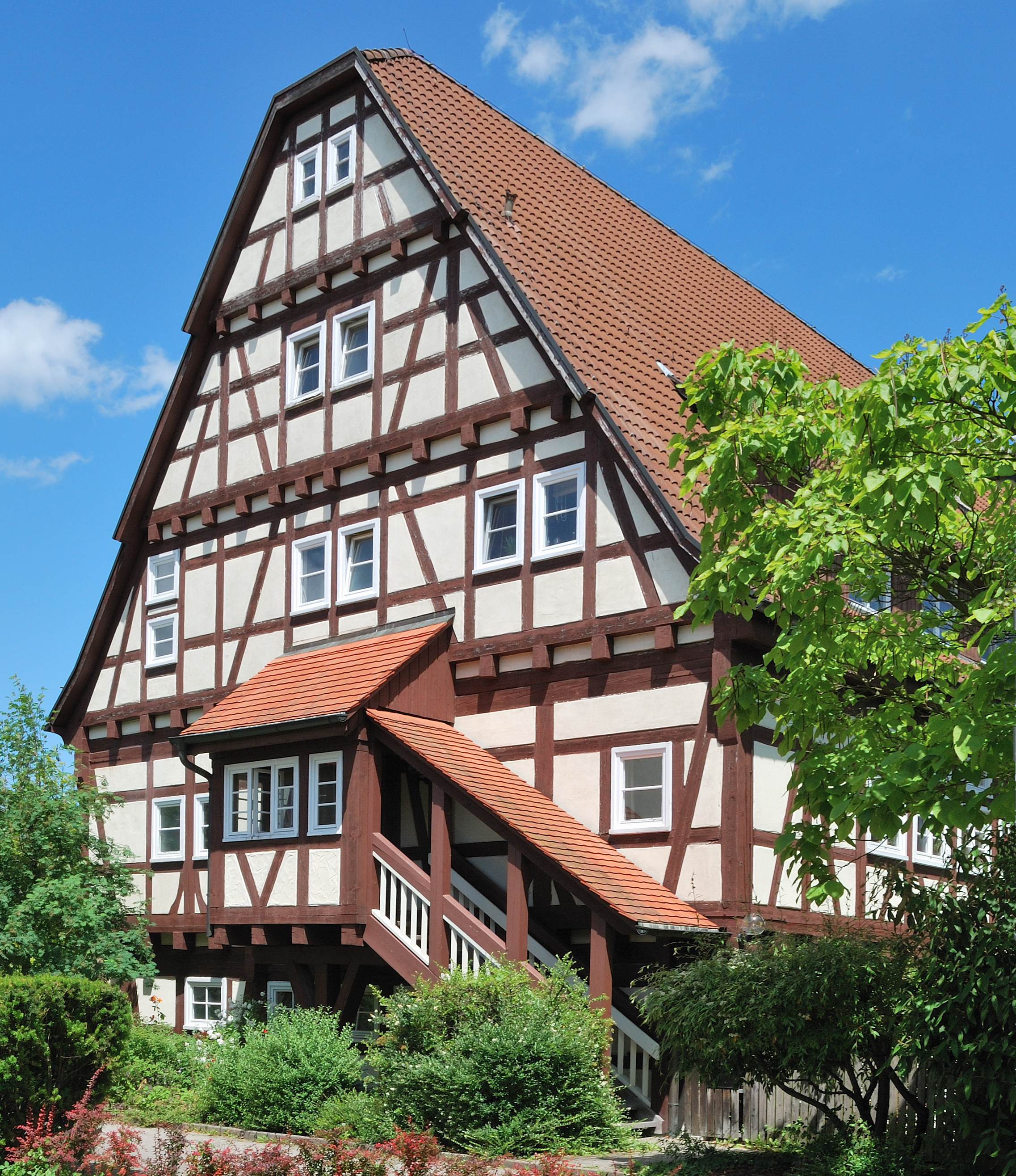 A farmhouse from 1790, renovated in the years 1980-1982, today the domicile of the evangelic deanery office. Ditzingen, Baden-Württemberg, Germany.